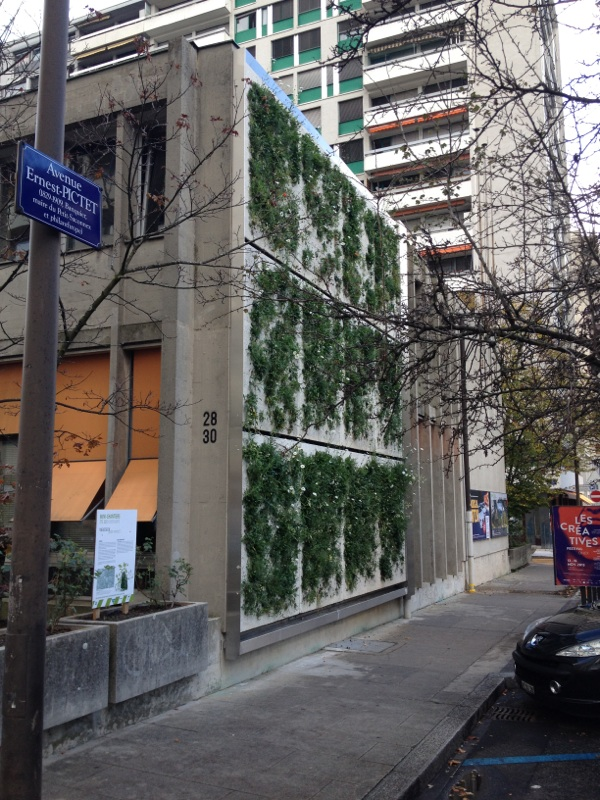 1st facade using Skyflor product on Avenue Ernest Pictet 28 in Geneva